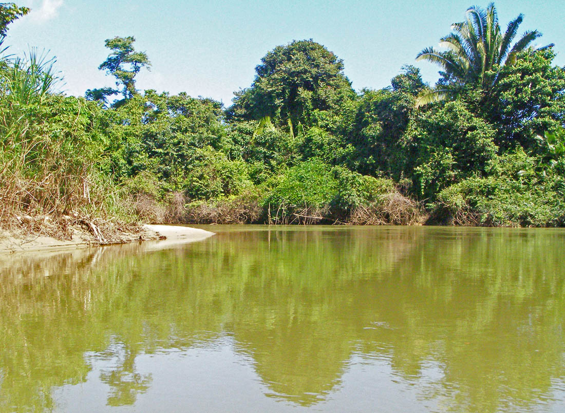 Monkey River, Belize, lower estuarine reach looking upriver